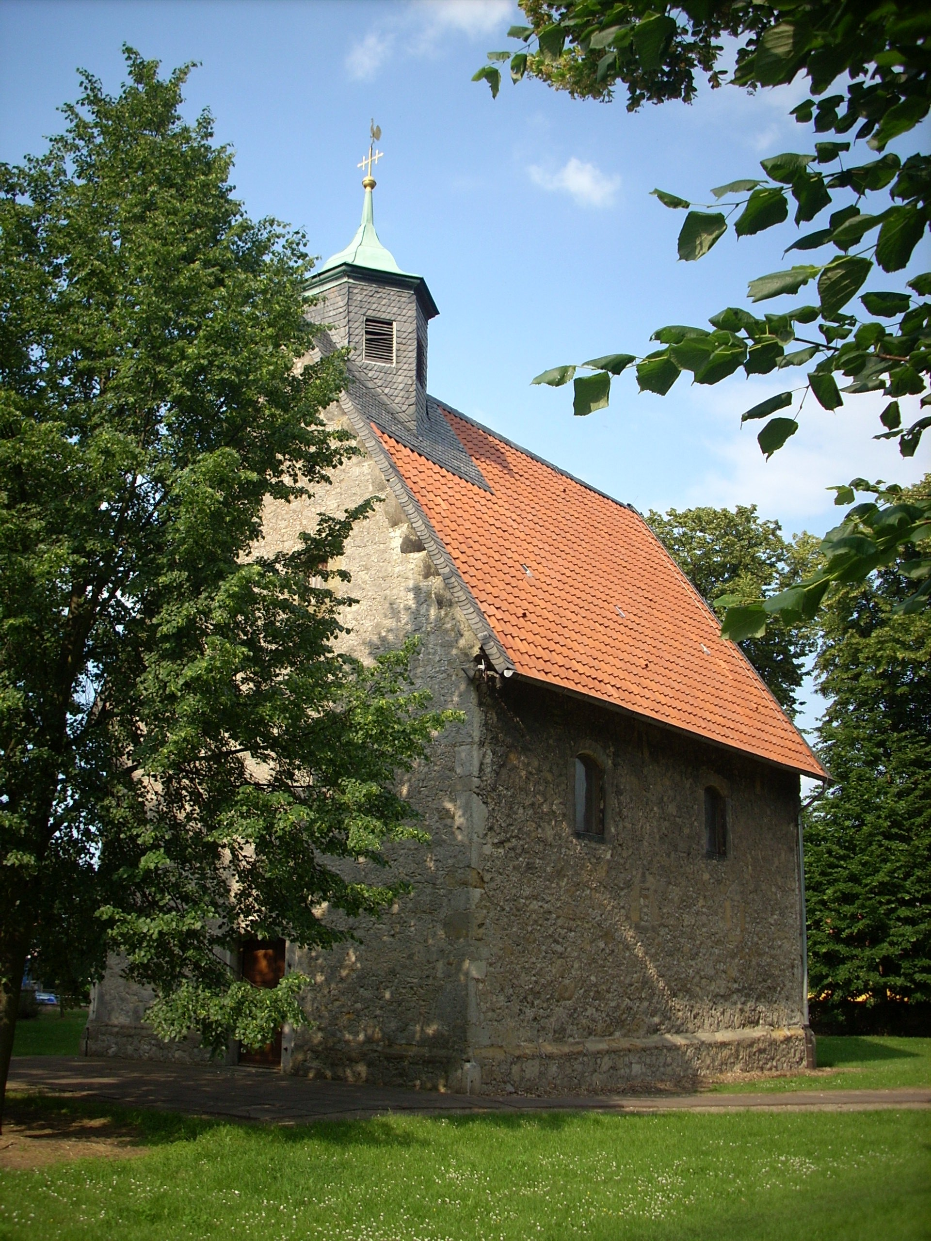 Algermissen (District of Hildesheim, Germany), St. Mauritius Catholic Chapel